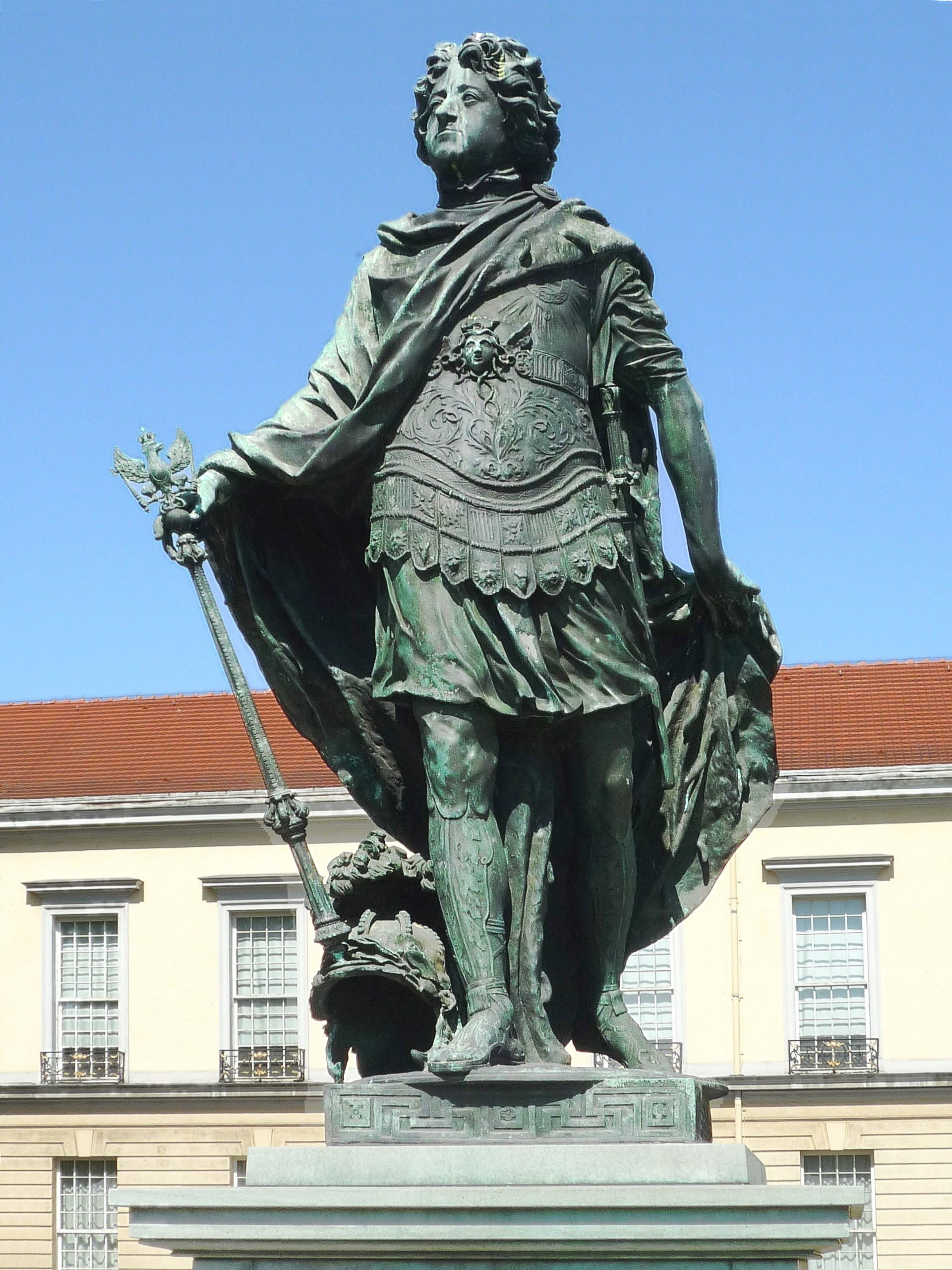 Statue of Friedrich III., elector of Brandenburg (= Friedrich I., king in Prussia) in front of Schloss Charlottenburg in Berlin (Germany). Sculptor: Andreas Schlüter (1659 or 1664 - 1714.